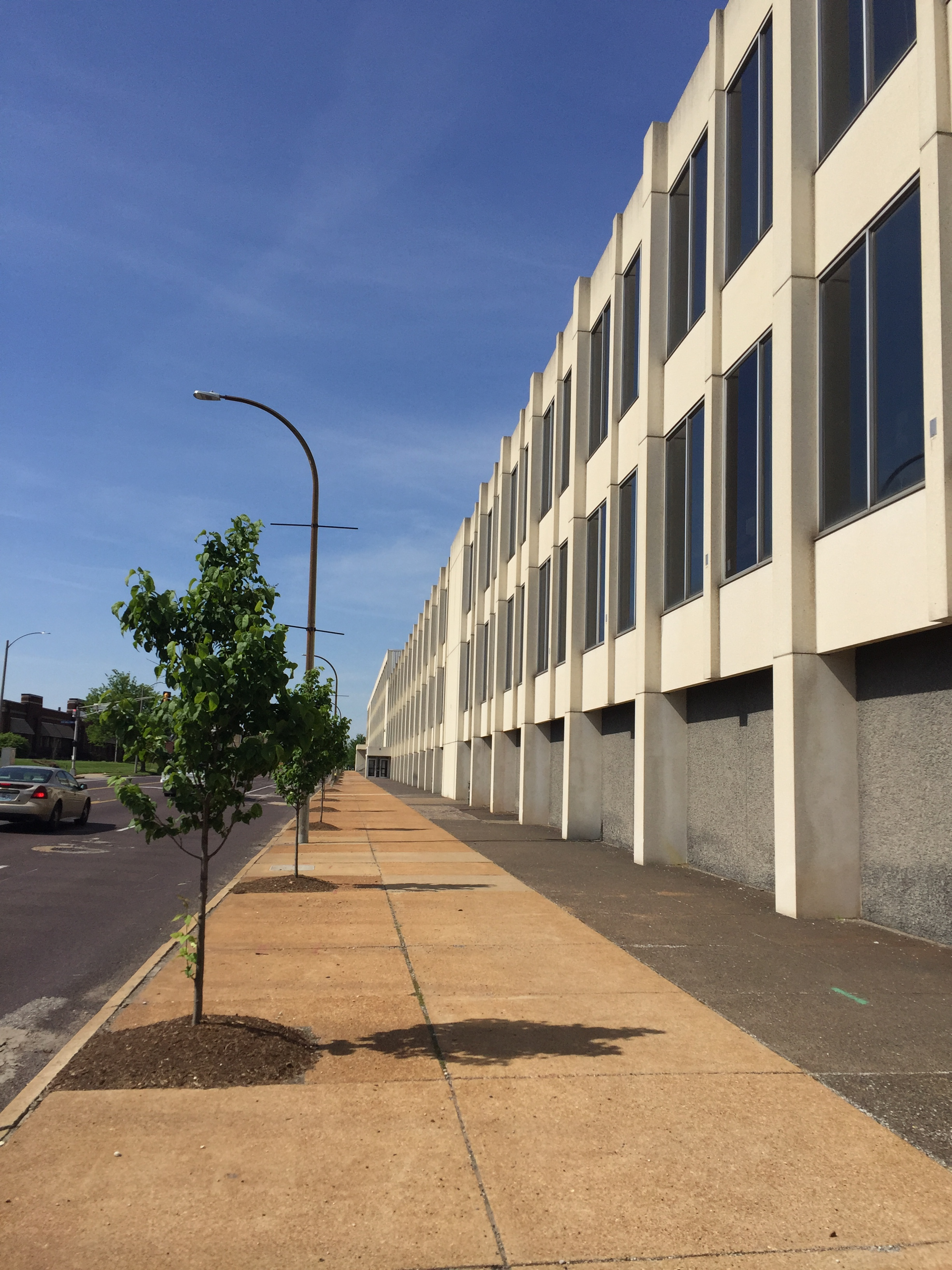 Union Seventy Center. Created by reconfiguring the former St. Louis Truck Assembly plant.